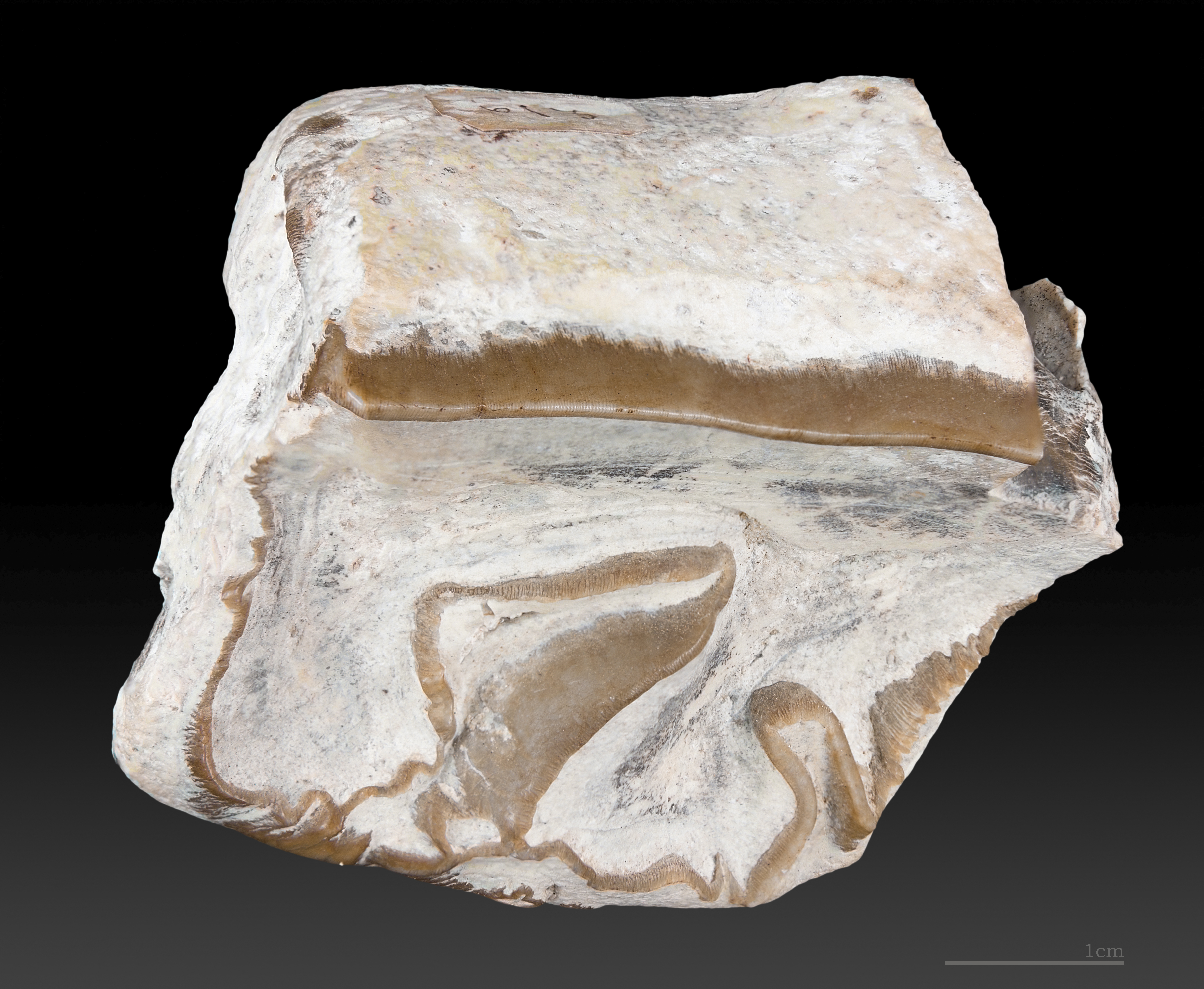 Cadurcotherium nouleti. Dedicated to Jean-Baptiste Noulet. Paratype. Rupelian (33,9 to 28,4 Ma)